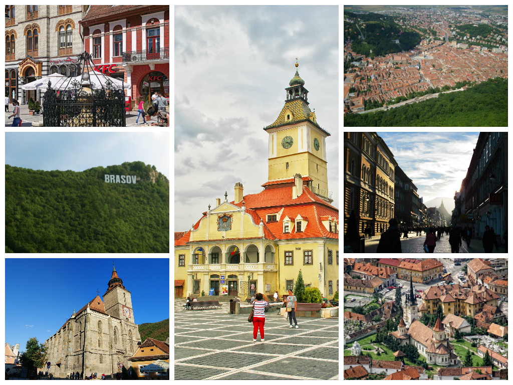 A collage of main sights in Brașov